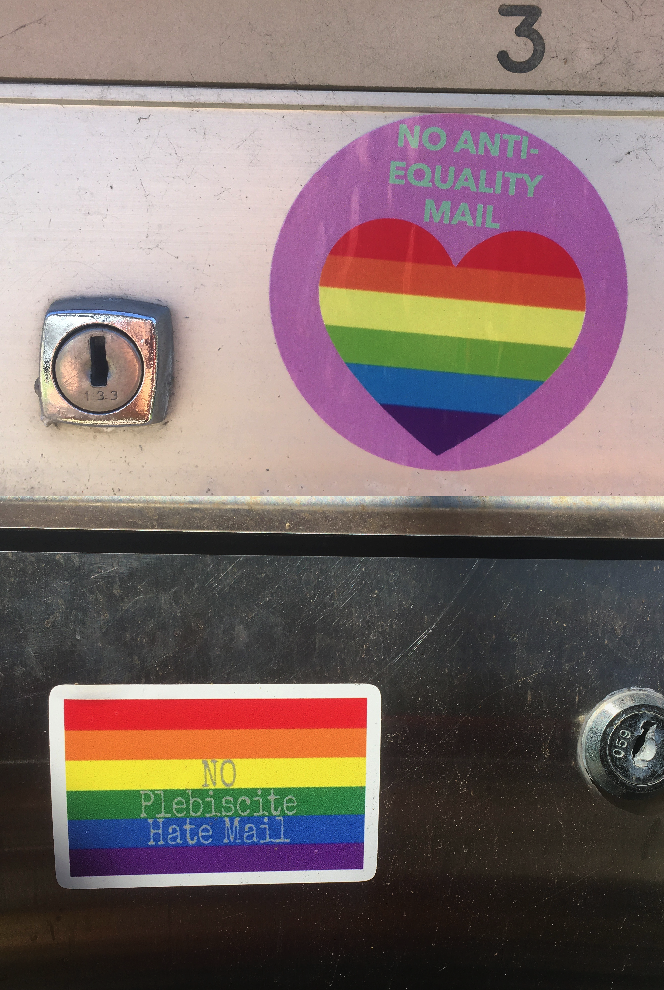 Stickers on mail boxes in NSW supporting marriage equality and asking not to receive mail from opponents of same-sex marriage